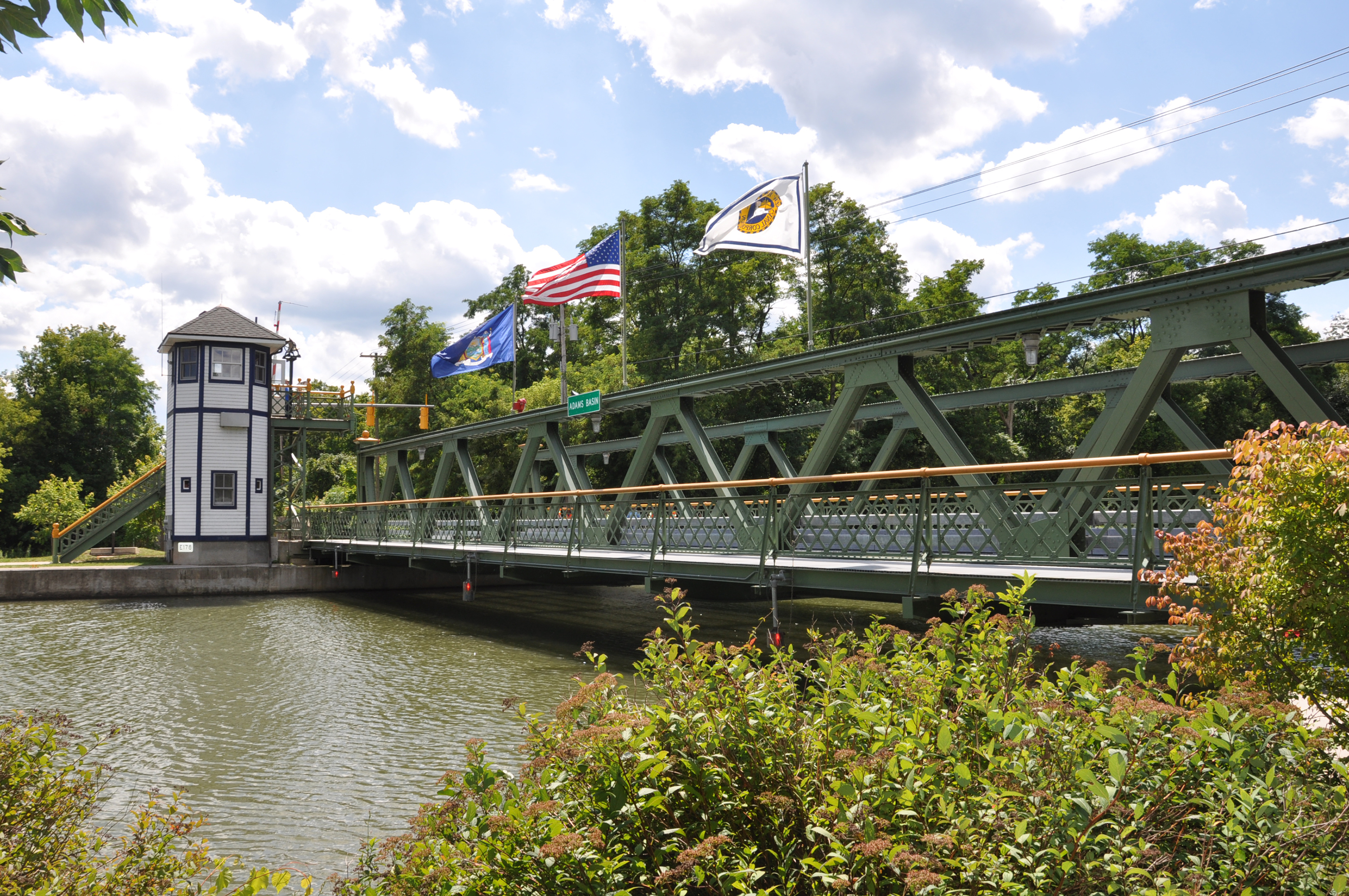 Lift Bridge at Adams Basin on the Erie Canal